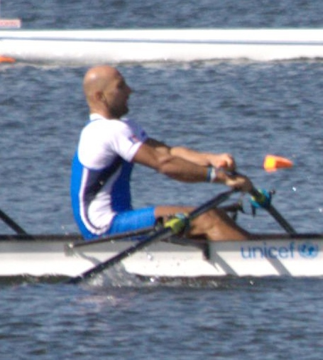 Luca Agamennoni